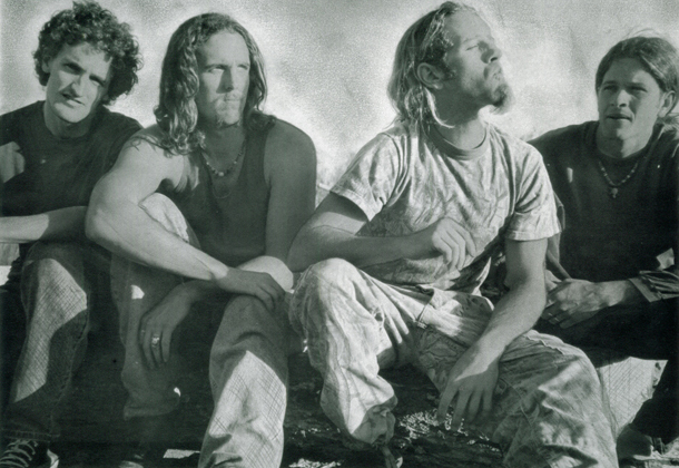 Photo of the band Lo Presher in 1994